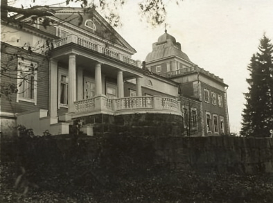 Högvalla seminarium, Boe Mansion in Porvoo, Finland.